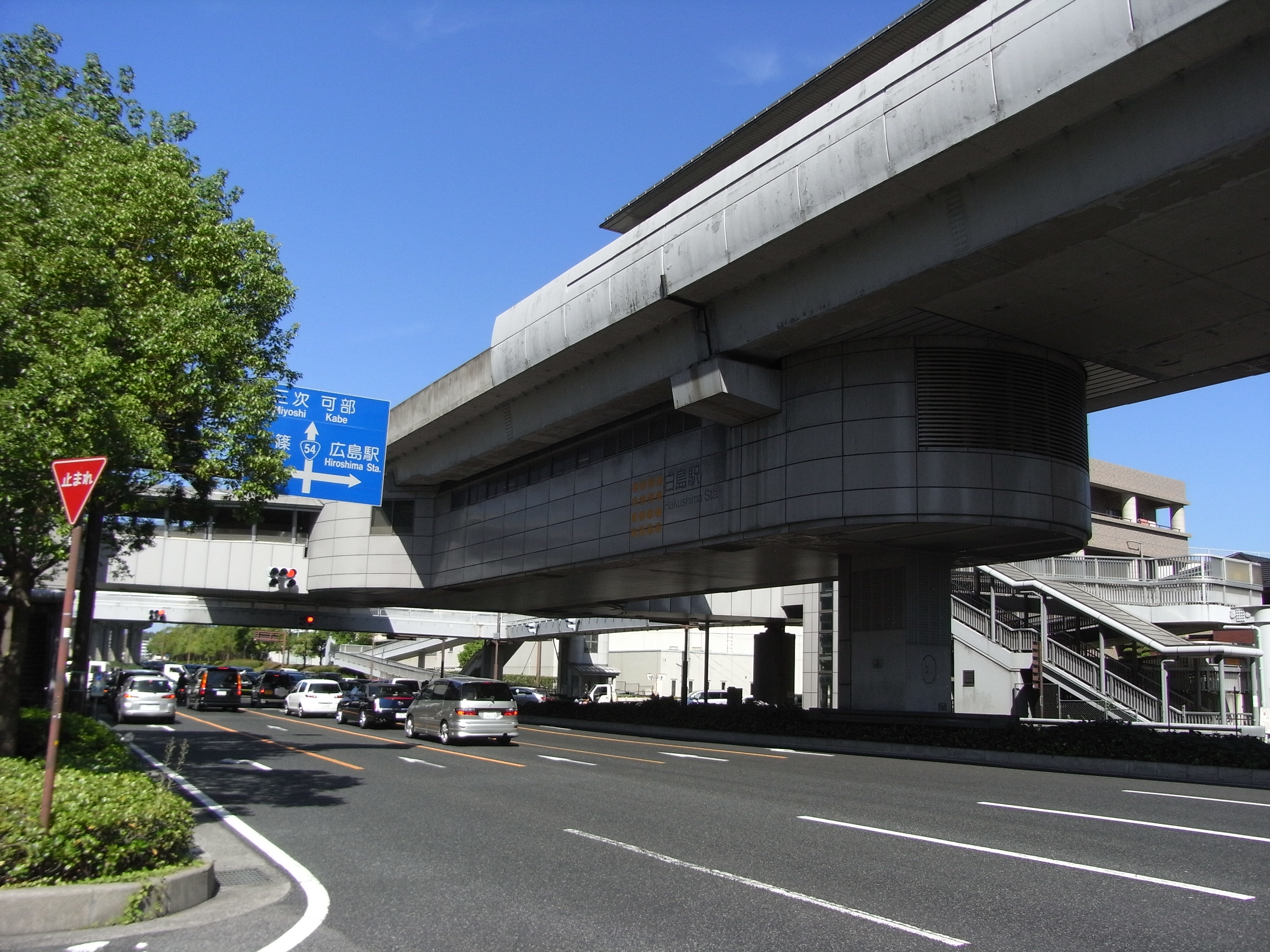 2009年9月20日、本人撮影 白島駅 Description 白島駅 GFDL,CC-BY-SA 3.0 Unported category:広島市の画像 category:鉄道駅画像 Category:広島高速交通の画像 白島駅